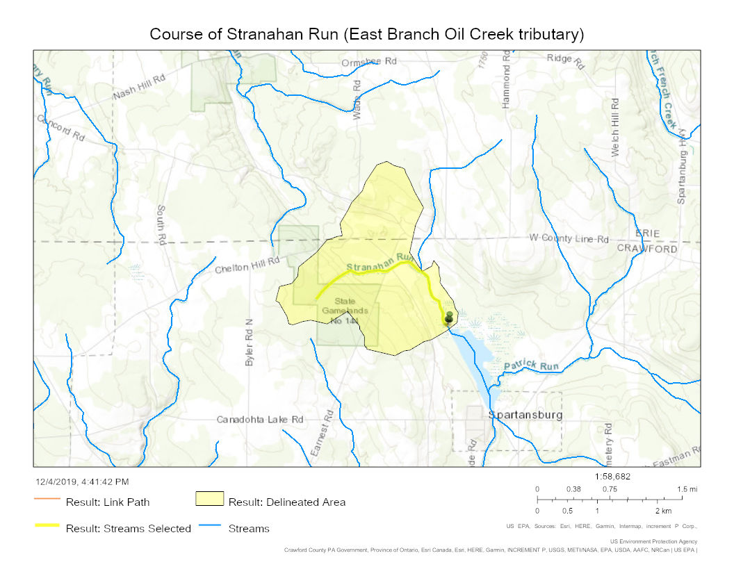 Map of the course of Stranahan Run (East Branch Oil Creek tributary) in Crawford and Erie Counties, Pennsylvania